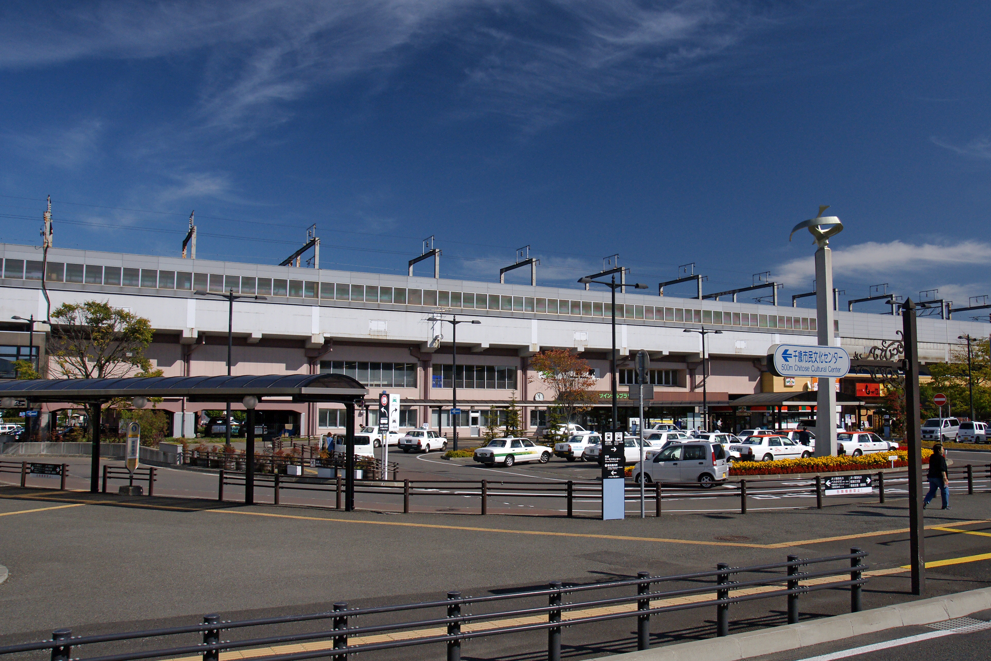 Chitose Station, Chitose, Hokkaido prefecture, Japan